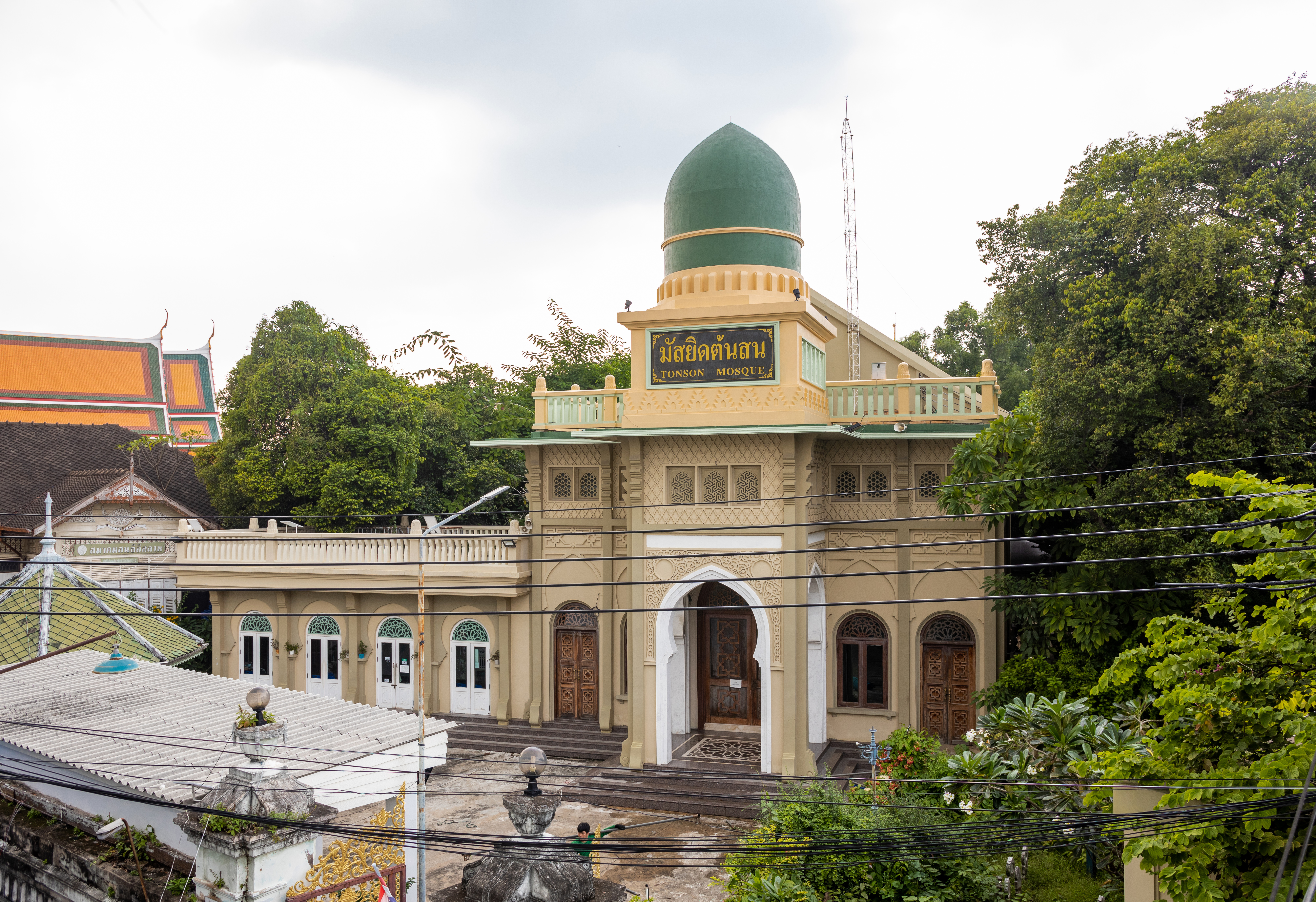 Ton Son Mosque, Bangkok Yai District, Bangkok. It dates back 400 years and is the oldest mosque in Bangkok. The present mosque was built in 1936.